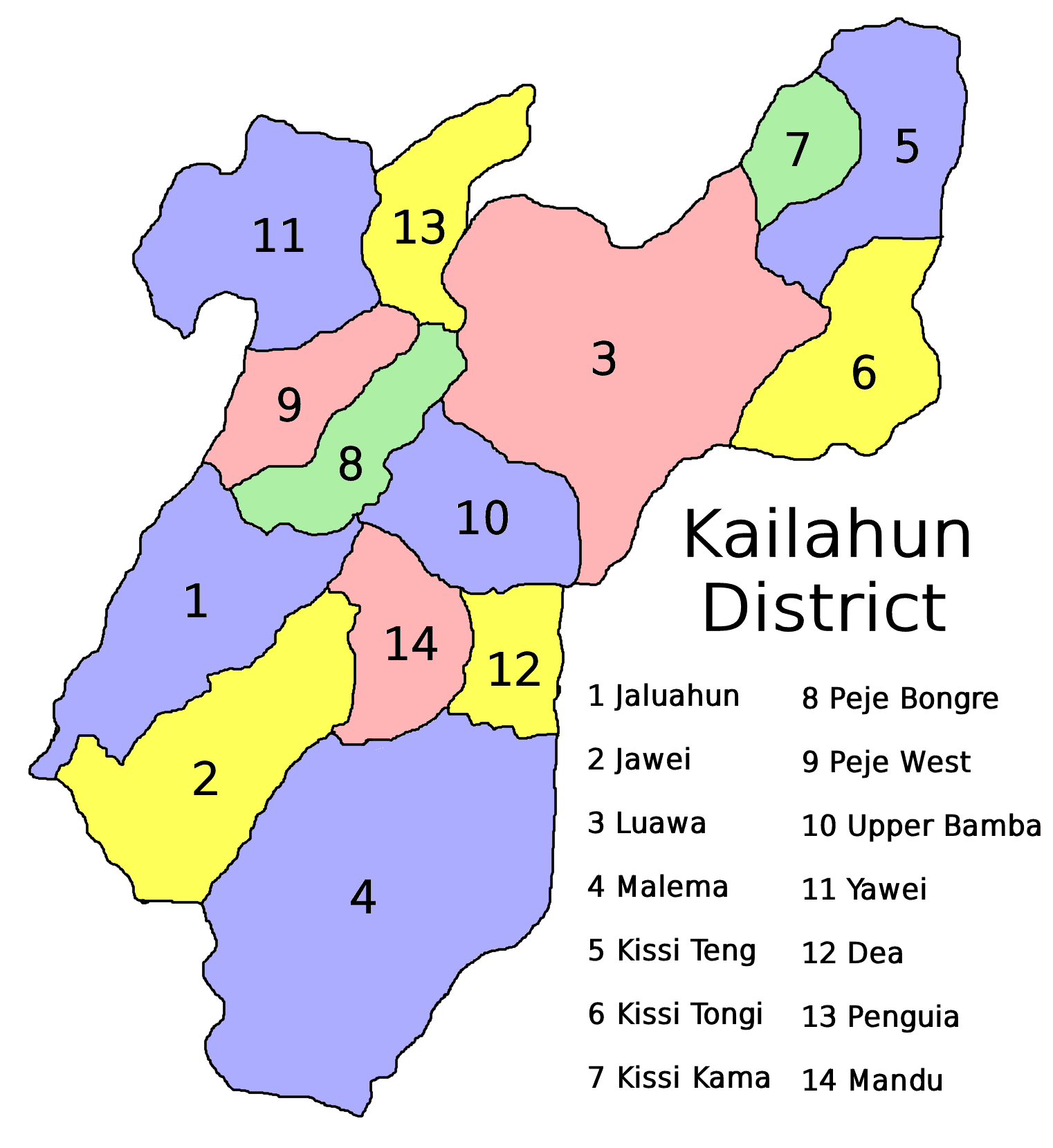 Map showing the chiefdoms (third level administrative divisions) for Kailahun District, Eastern Province, Sierra Leone. Based upon information from ReliefWeb from the reference sheet for Geo-codes for Sierra Leone produced 20 April 2001 by OCHA Humanitarian Information Center and the Sierra Leone Information System